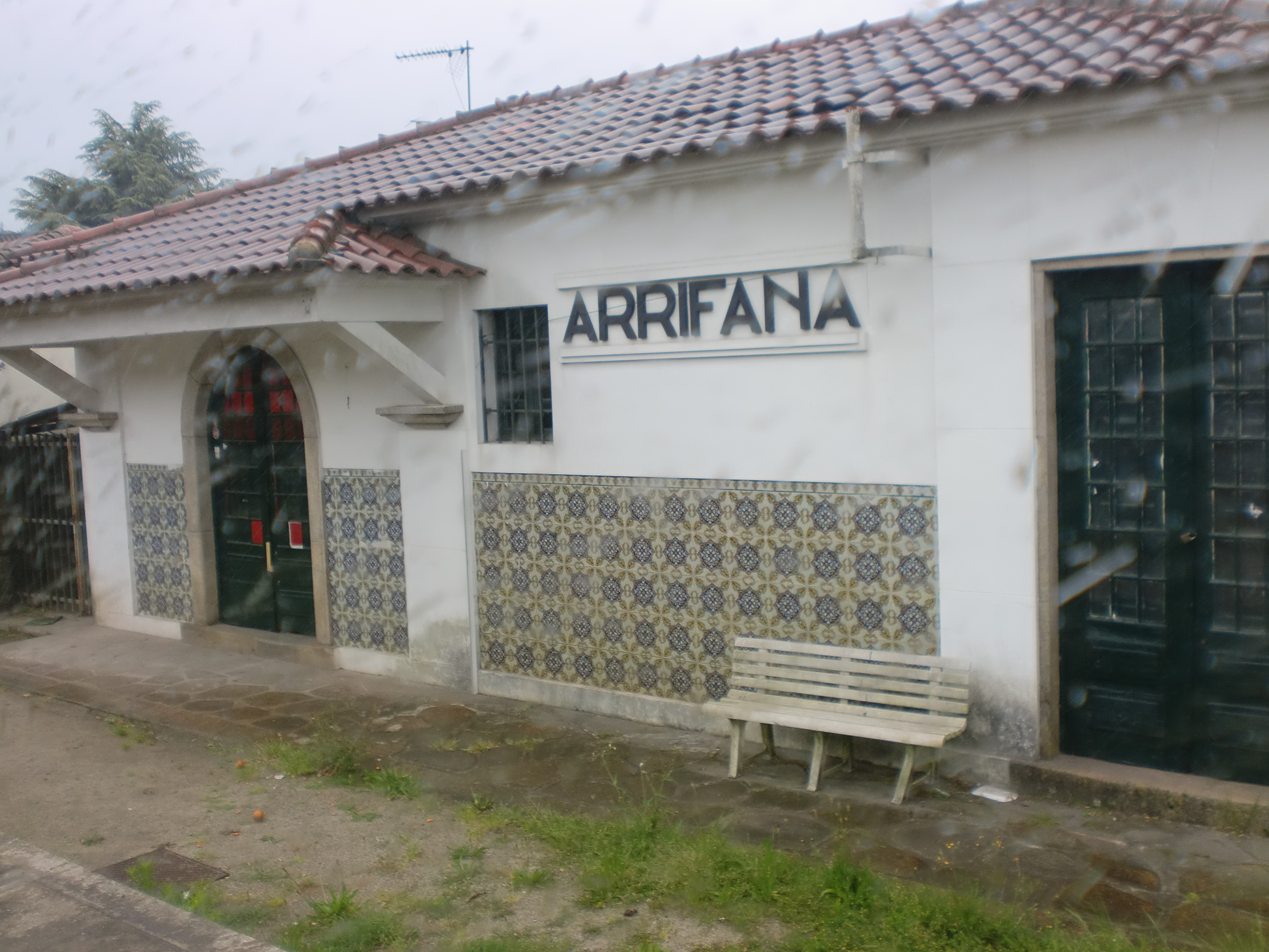 Arrifana station